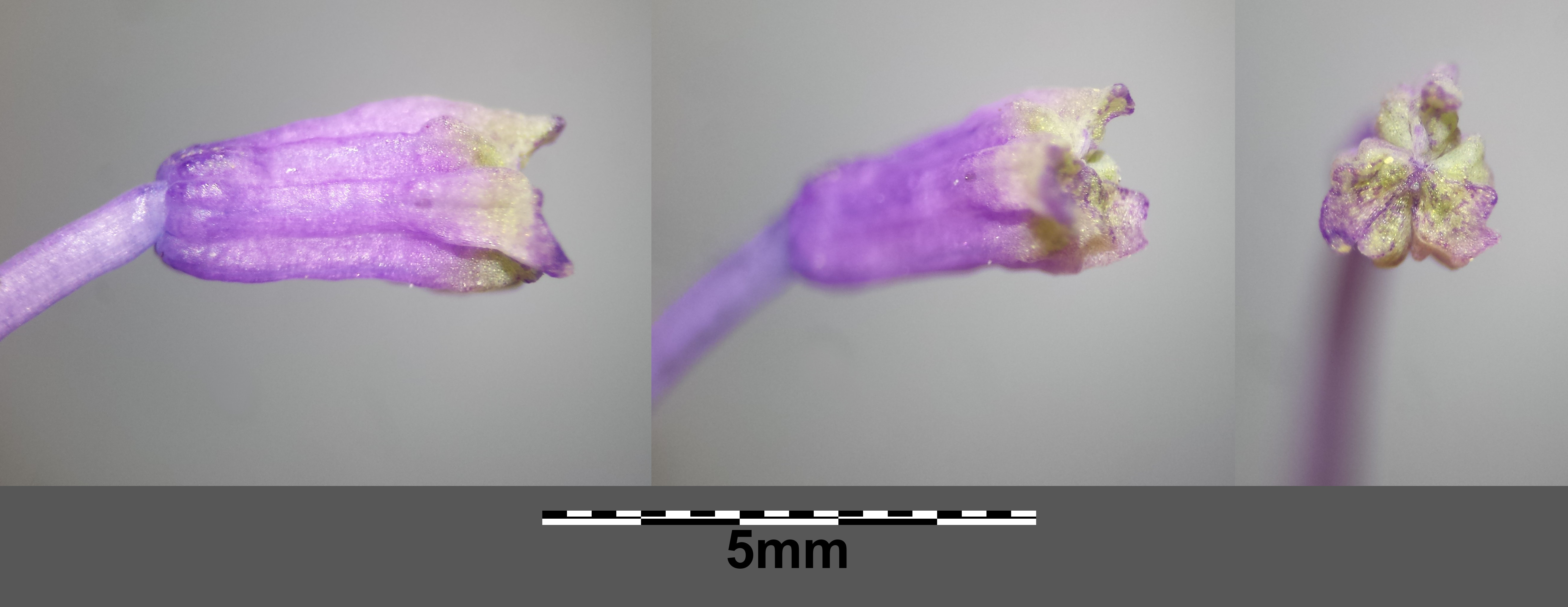 Sterile flower Taxonym: Muscari comosum ss Fischer et al. EfÖLS 2008 ISBN 978-3-85474-187-9 Location: Waldberg next to Niederkreuzstetten, district Mistelbach, Lower Austria - ca. 250 m a.s.l. Habitat: shrubbery